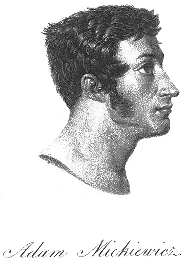 Poems by Adam Mickiewicz. V. 1. - Vilnius; printed by Józef Zawadzki, 1822; Adam Mickiewicz (1798-1855)